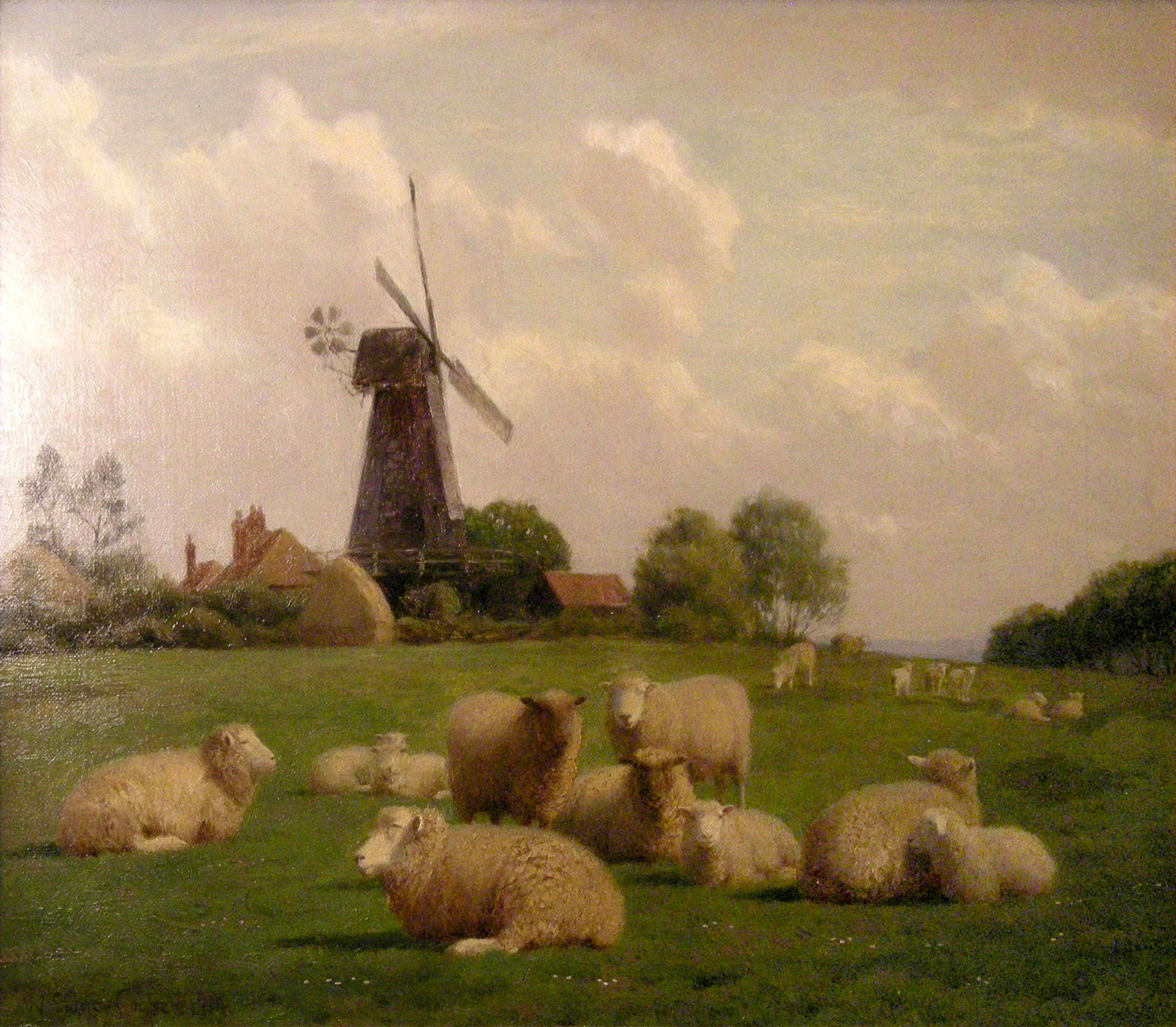 Herne Bay Museum, Herne Bay, Kent. Oil on canvas: Herne Mill 1914 by William Sidney Cooper.